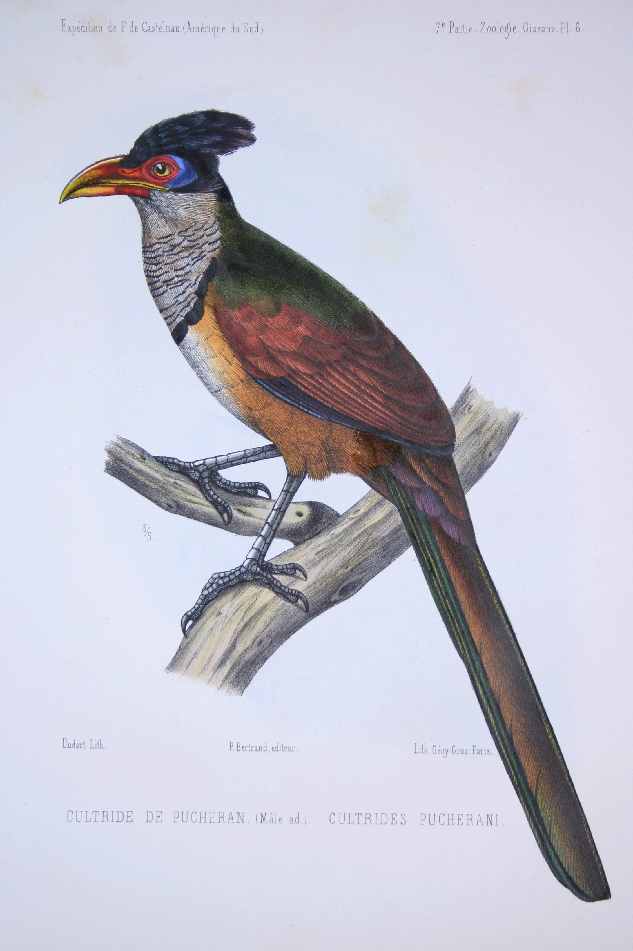 Cultrides pucherani = Neomorphus pucheranii